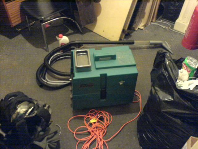 Carpet cleaner